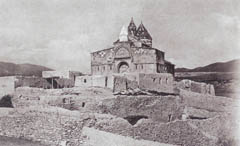 The Saint Bartholomew Monastery, a 13th-18th century Armenian monastery built in Armenia (near Albayrak in Eastern Turkey). It was destroyed by the Turkish army during WW I.